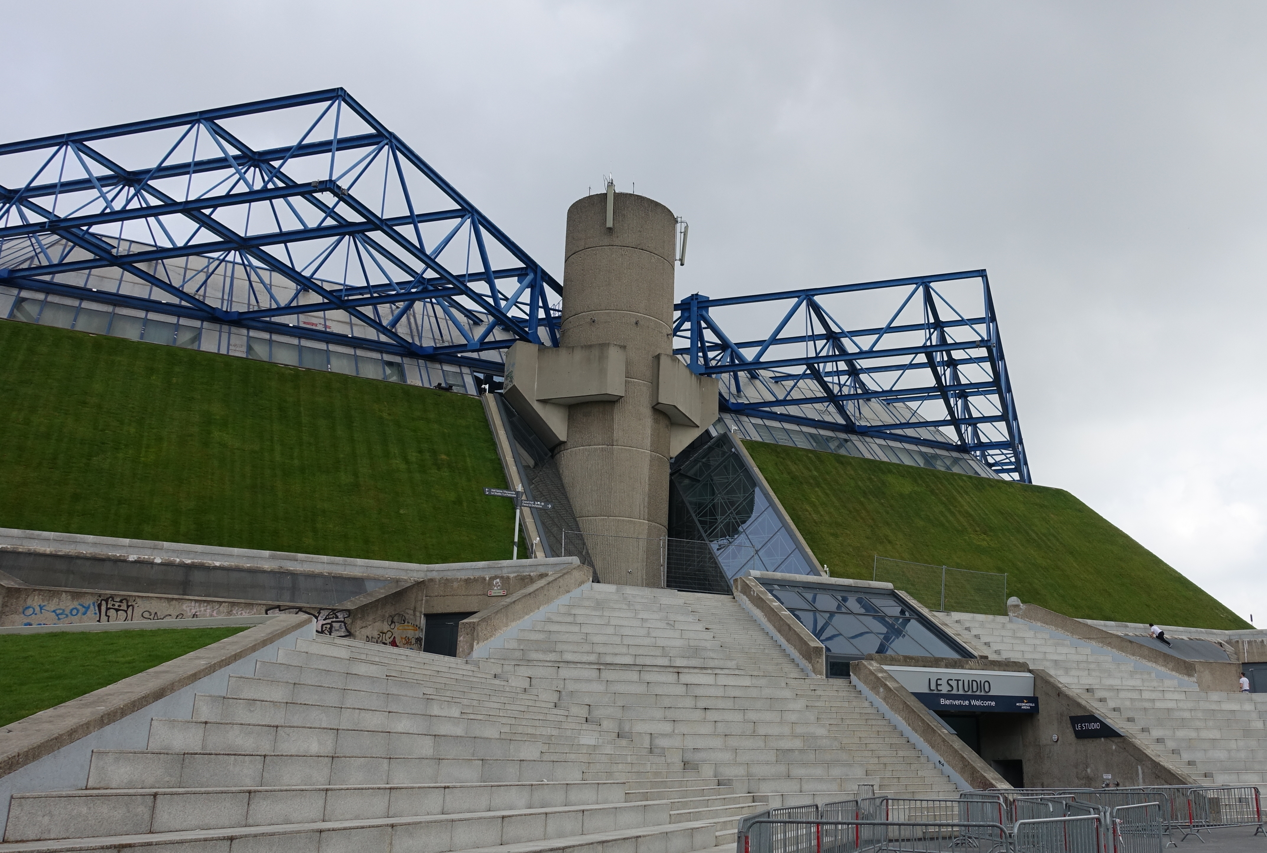 AccorHotels Arena @ Bercy @ Paris